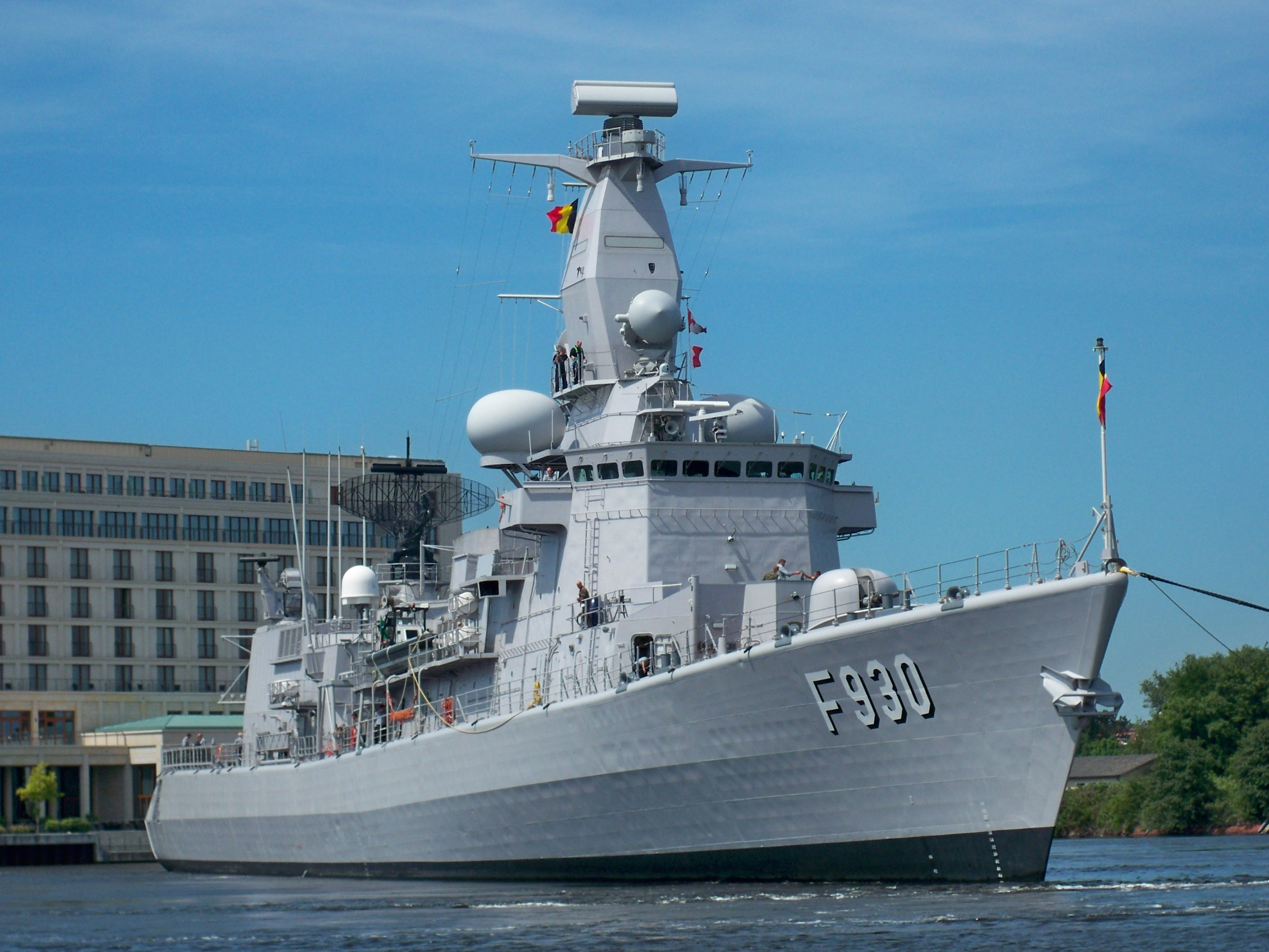 Belgian frigate Leopold I at the deperming range in Wilhelmshaven